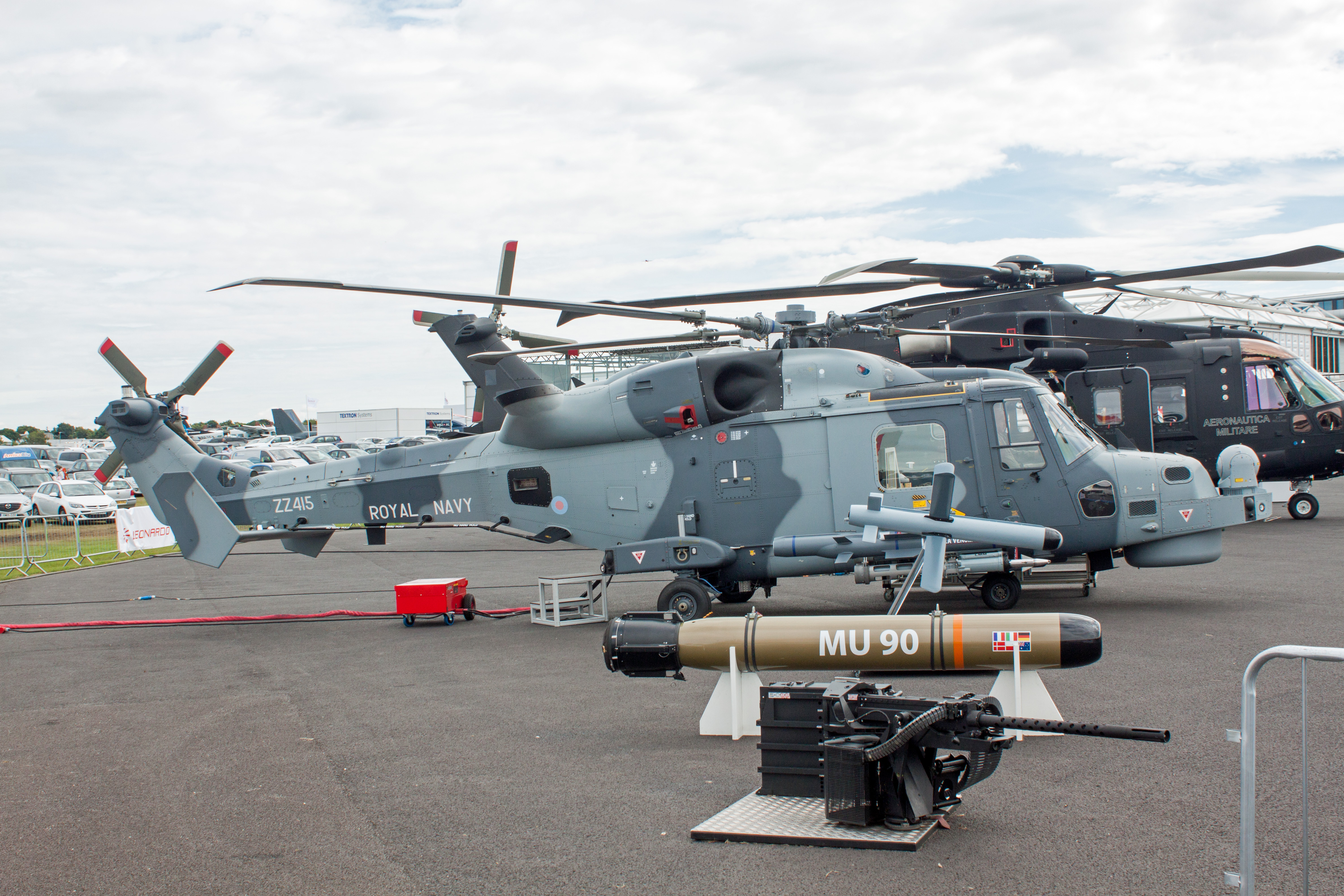 Farnborough Airshow 2016